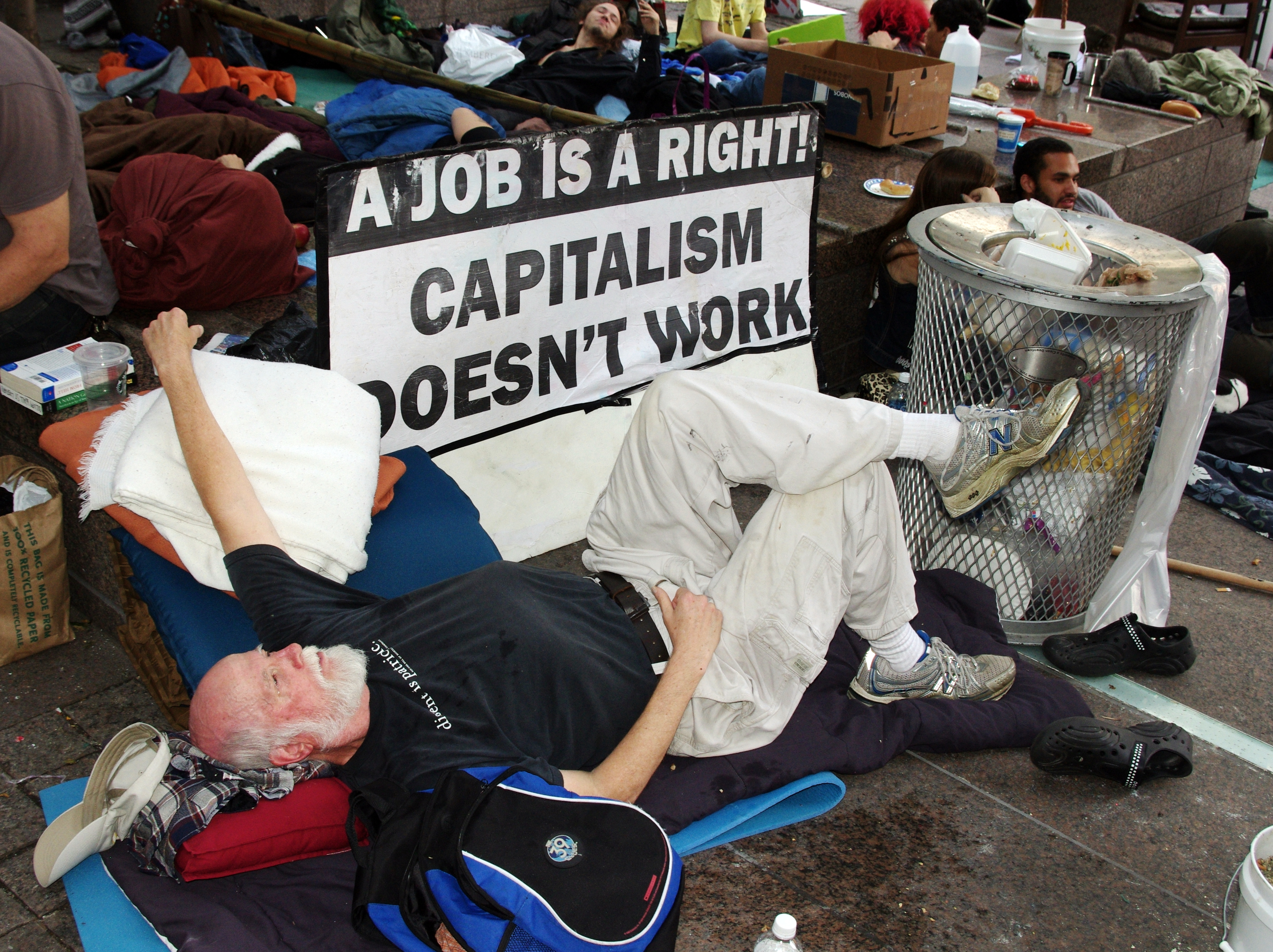 Photographs of Occupy Wall Street from Zuccotti Park on Day 9, September 25. Wall Street remains closed to the public.